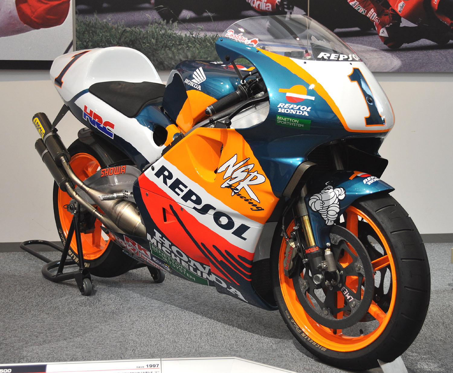 Honda NSR500 (Michael Doohan, 1997)